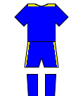 This is the kit worn by Wimbledon F.C. players in the 1988 FA Cup Final